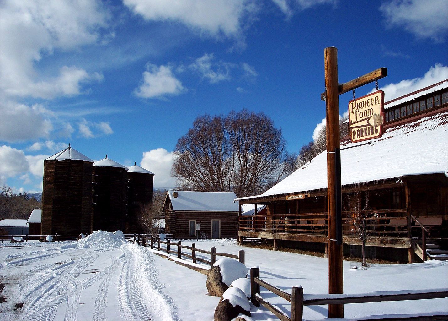 Pioneer Town entrance in Cedaredge, Colorado, United States. Winter scene featuring Stolte fruit packing shed, painted wooden sign, and historic grain silos. The silos are listed on the National Register of Historic Places.